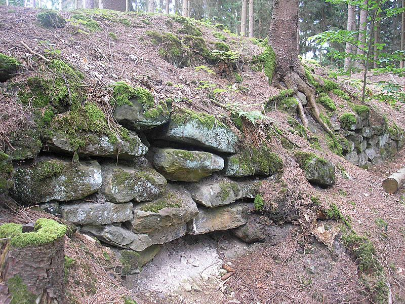 Alte Burg ("Old castle", early middle age) near Altenstein, Lower Franconia, Germany. Part of the walls from outside. Own photo, Aug. 2006